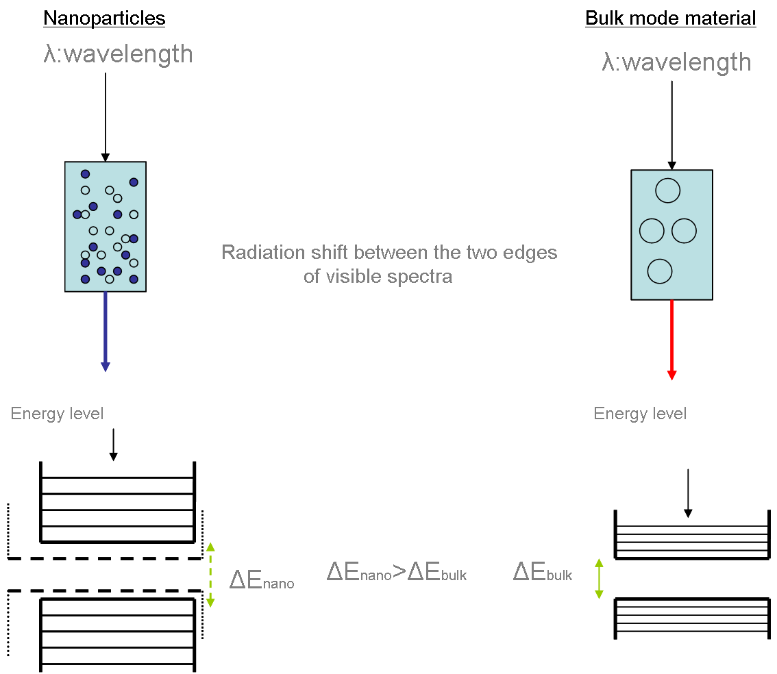 Quantum view of quantum confinement